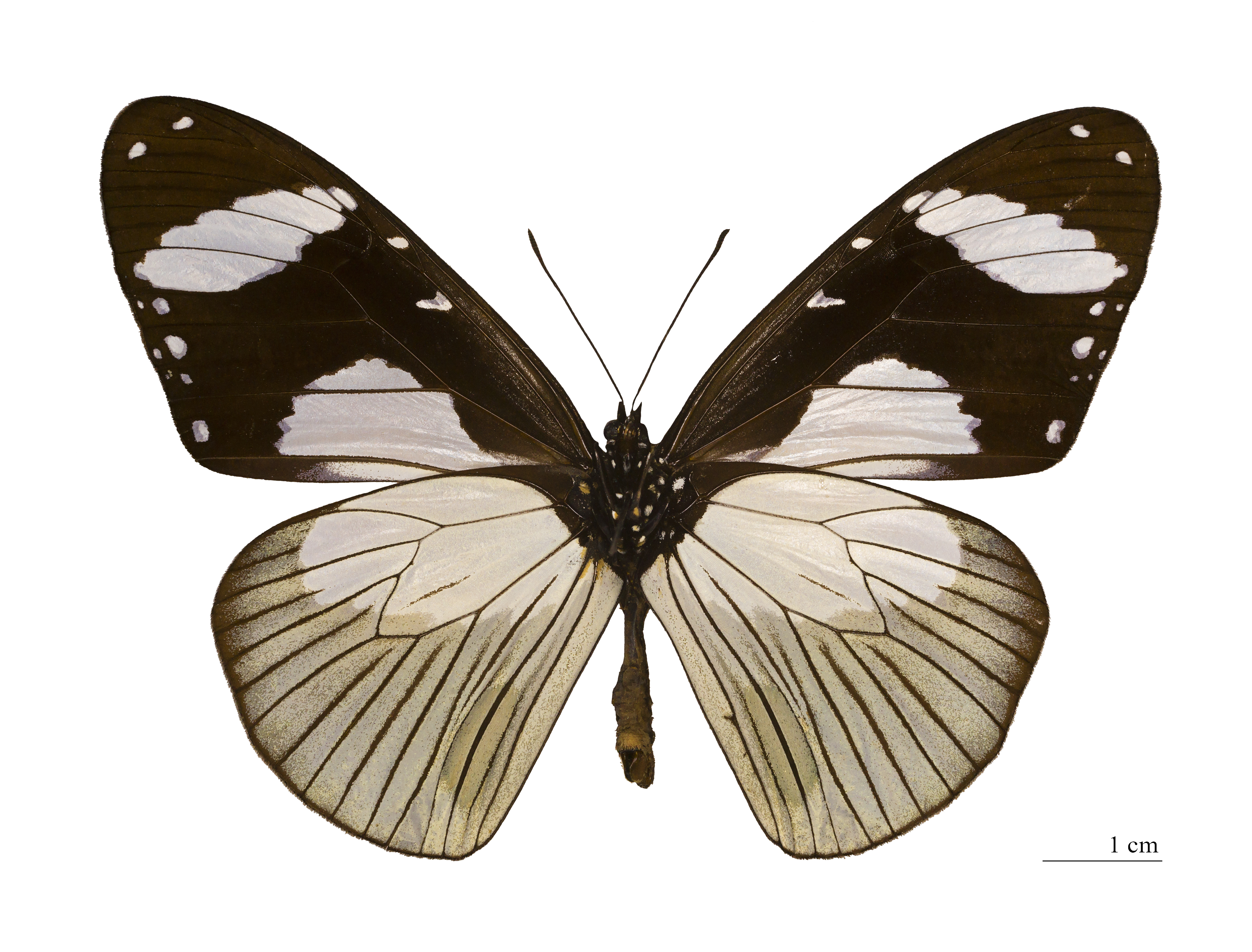 Male specimen - Ventral side. Locality: Ebogo, Kamerun